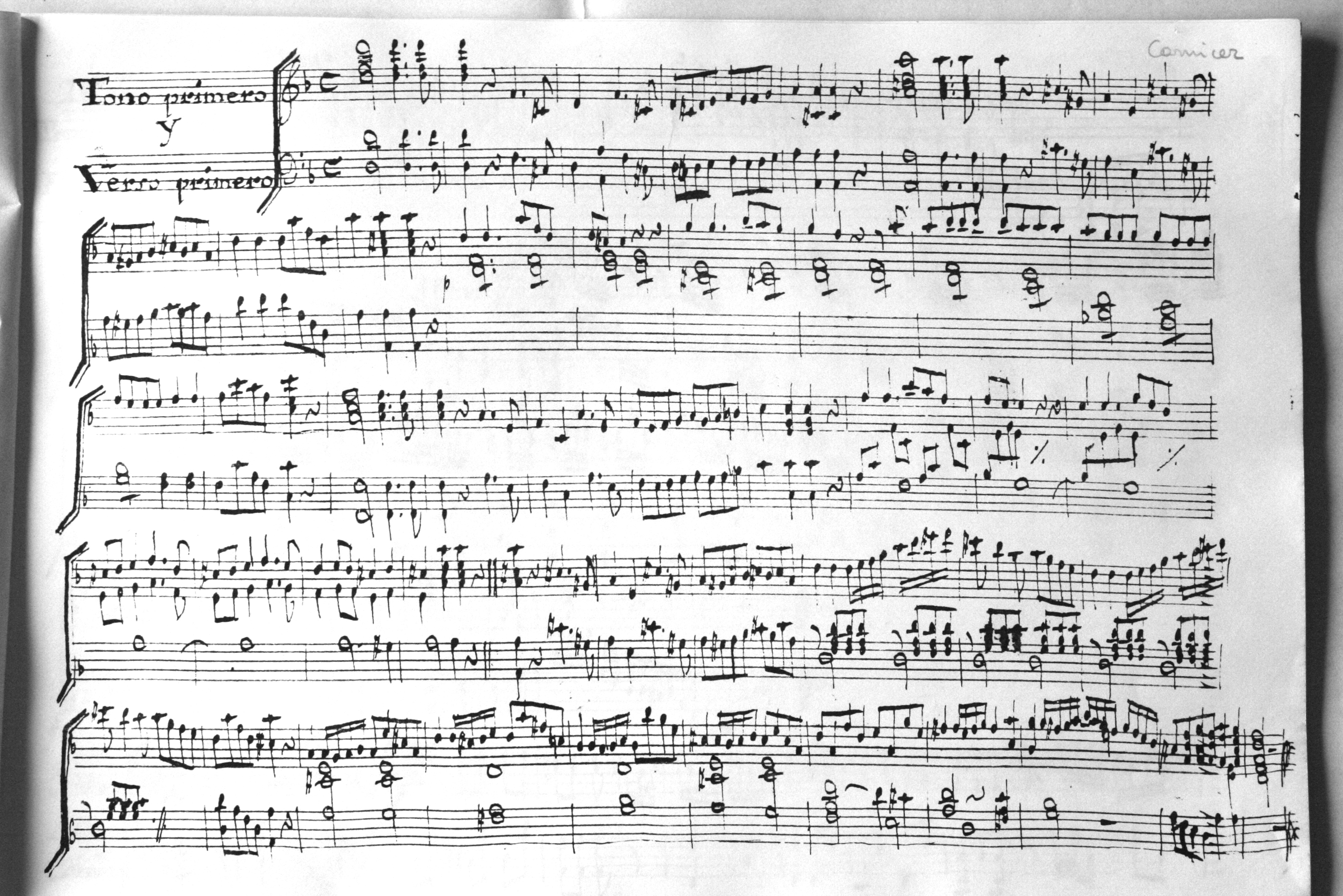 Música del Ball de l'àliga a la processó de Corpus Christi de Barcelona